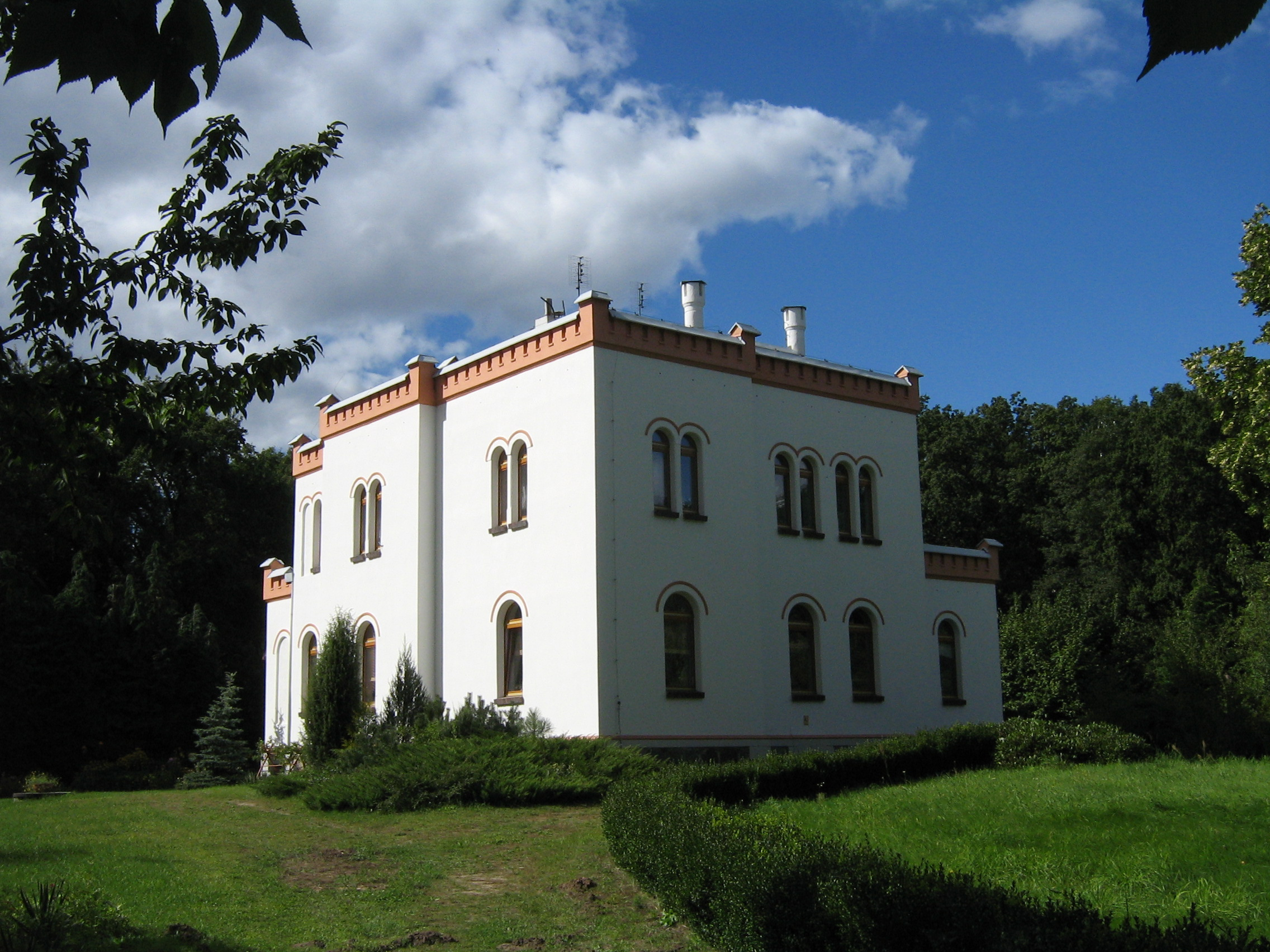 Villa in Lasówki (Poland)